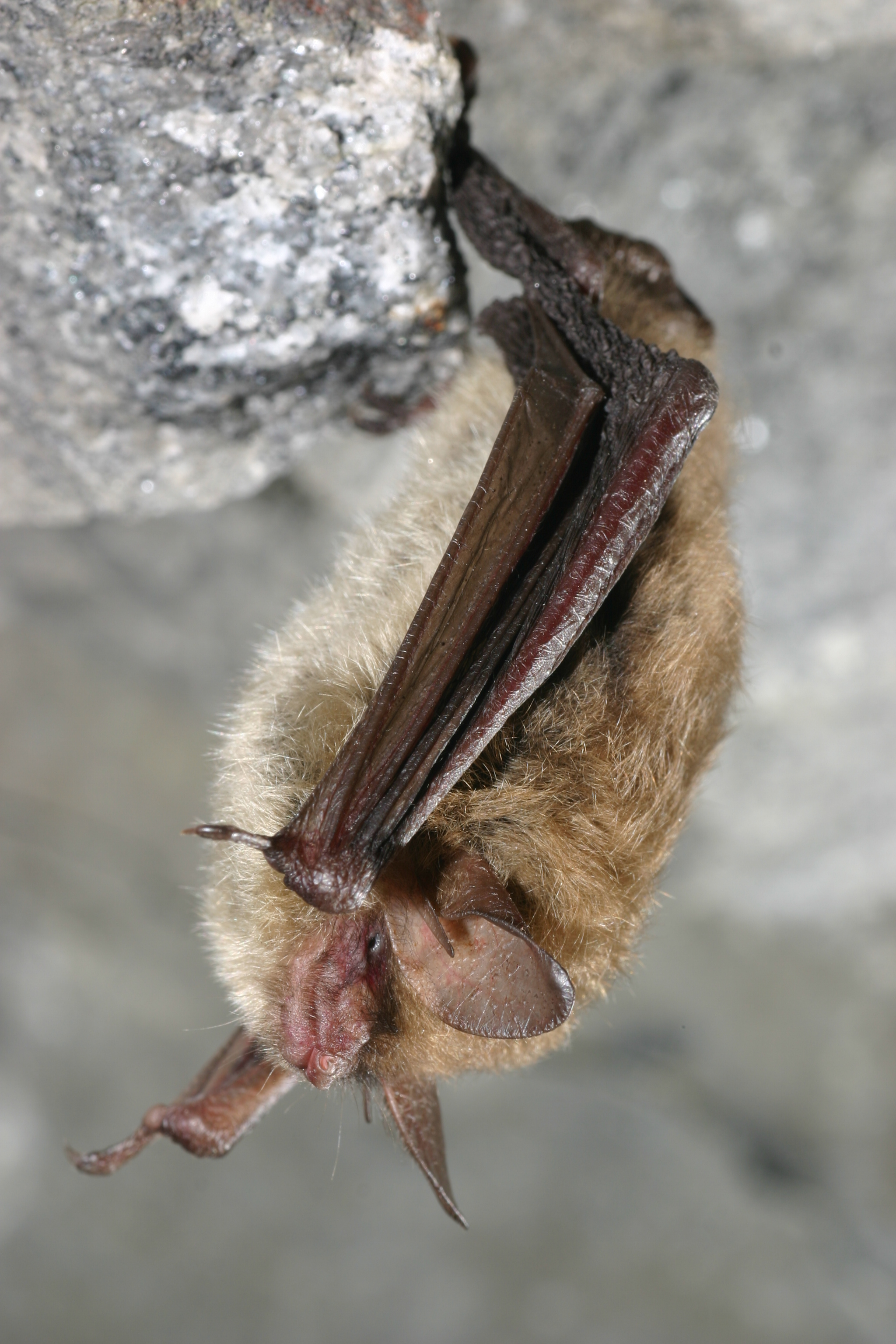 Myotis septentrionalis photo credit: Al Hicks/NYDEC